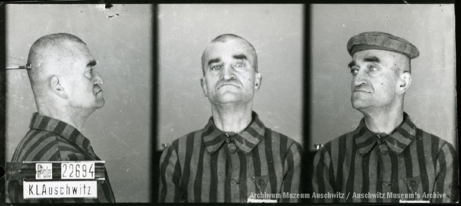 Photograph of Jan Józefowski taken in the Auschwitz concentration camp (1942)